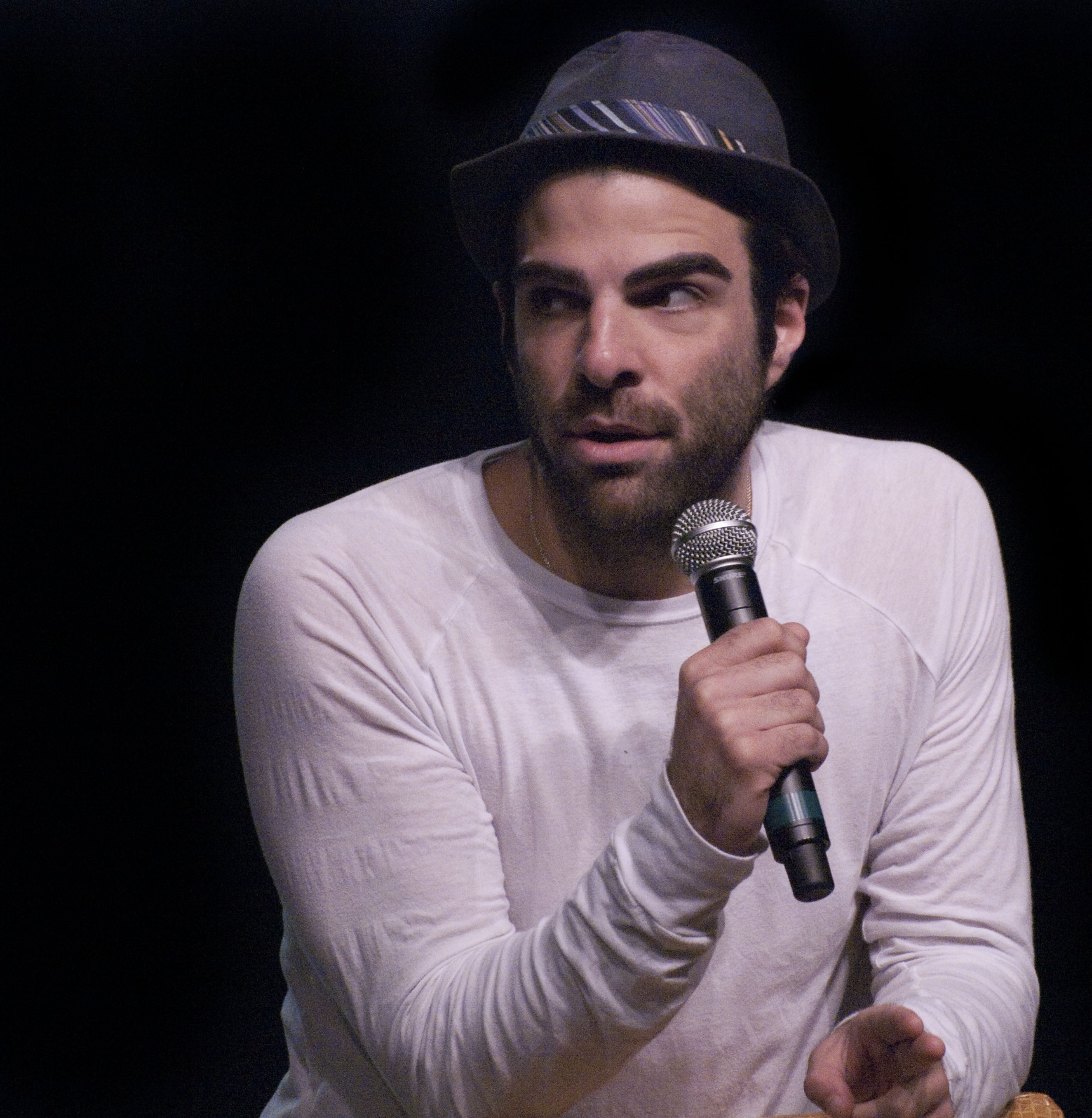 Zachary Quinto (P8095716-J) at the Las Vegas Star Trek Convention 2009.